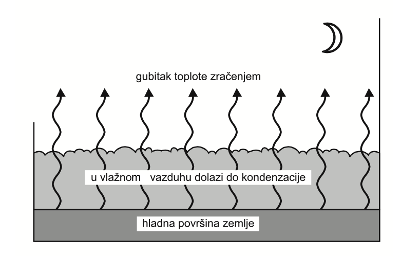 Радијациона магла